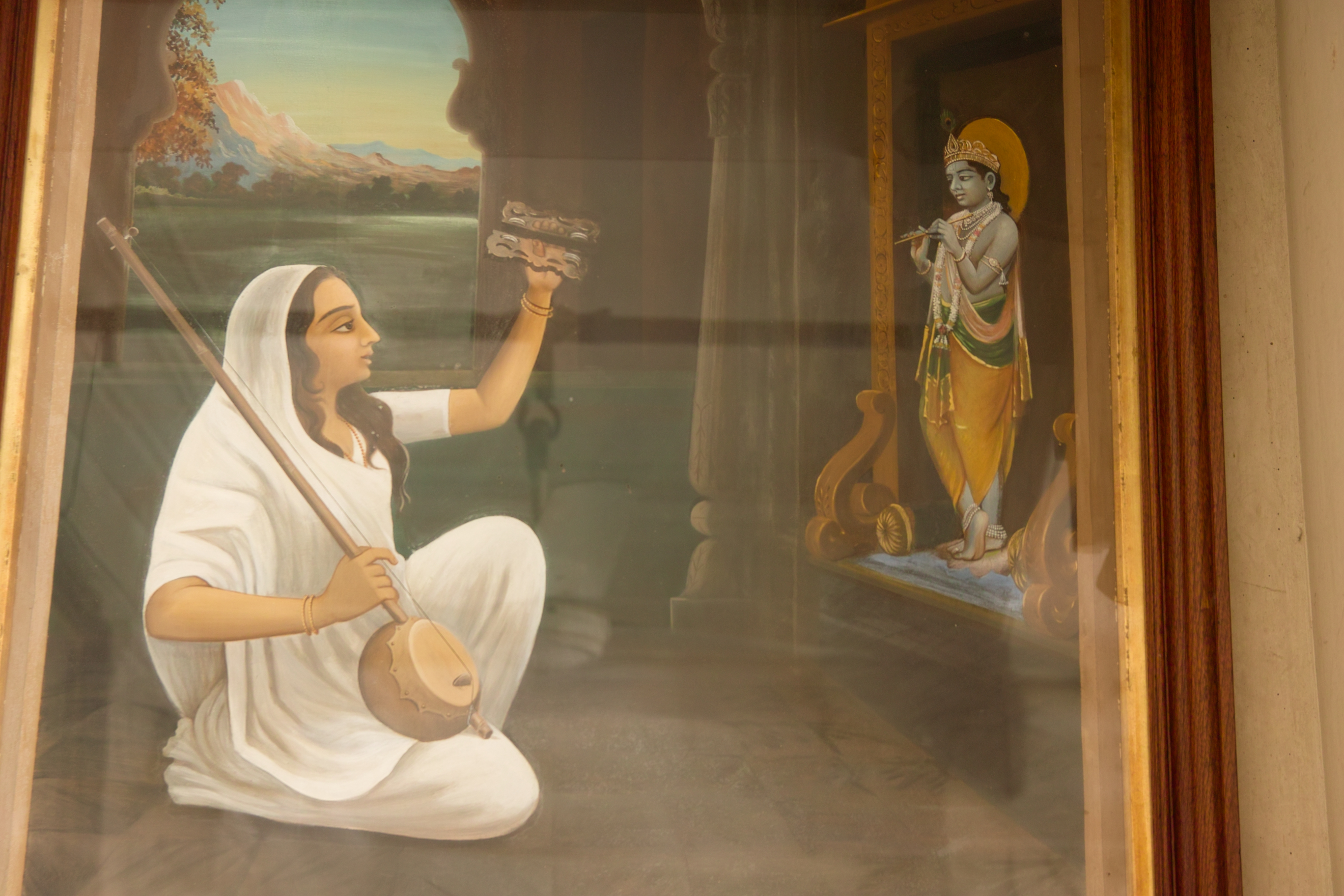 Inside City Palace Museum, Udaipur, picture of Meera and Krishna.